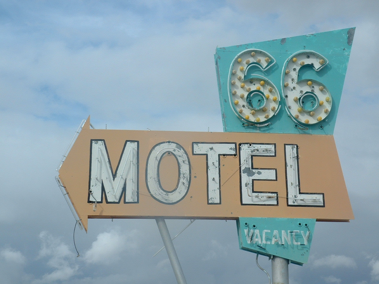 The neon sign of the Route 66 Motel — on Route 66 in Needles, California, Located near the Needles Amtrak Station at the El Garces Hotel.